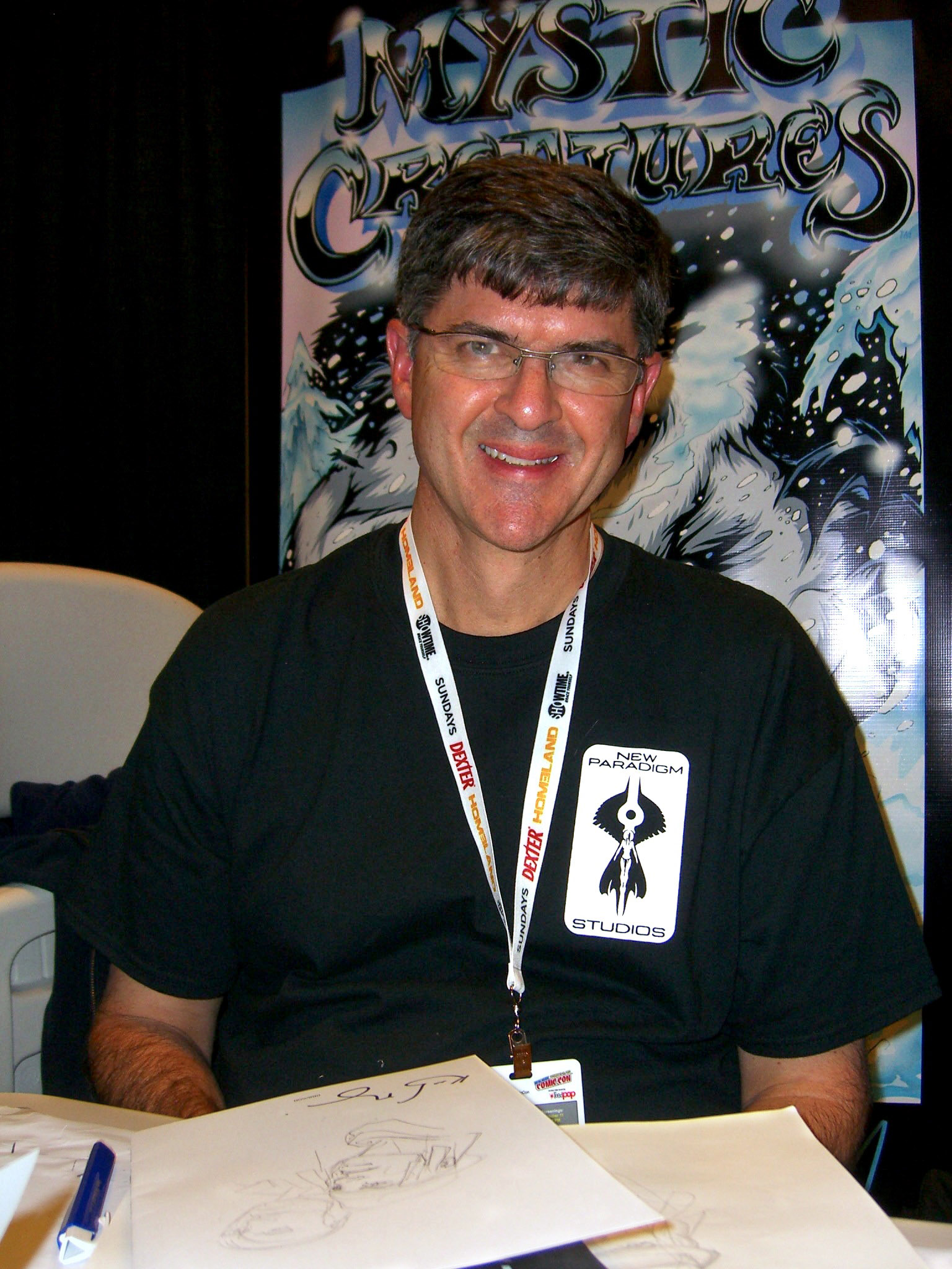 Artist Rick Leonardi at the New Paradigm Studios booth on Day 3 of the 2012 New York Comic Con, Saturday October 13, 2012 at the Jacob K. Javits Convention Center in Manhattan. This photo was created by Luigi Novi. It is not in the public domain, and use of this file outside of the licensing terms is a copyright violation.